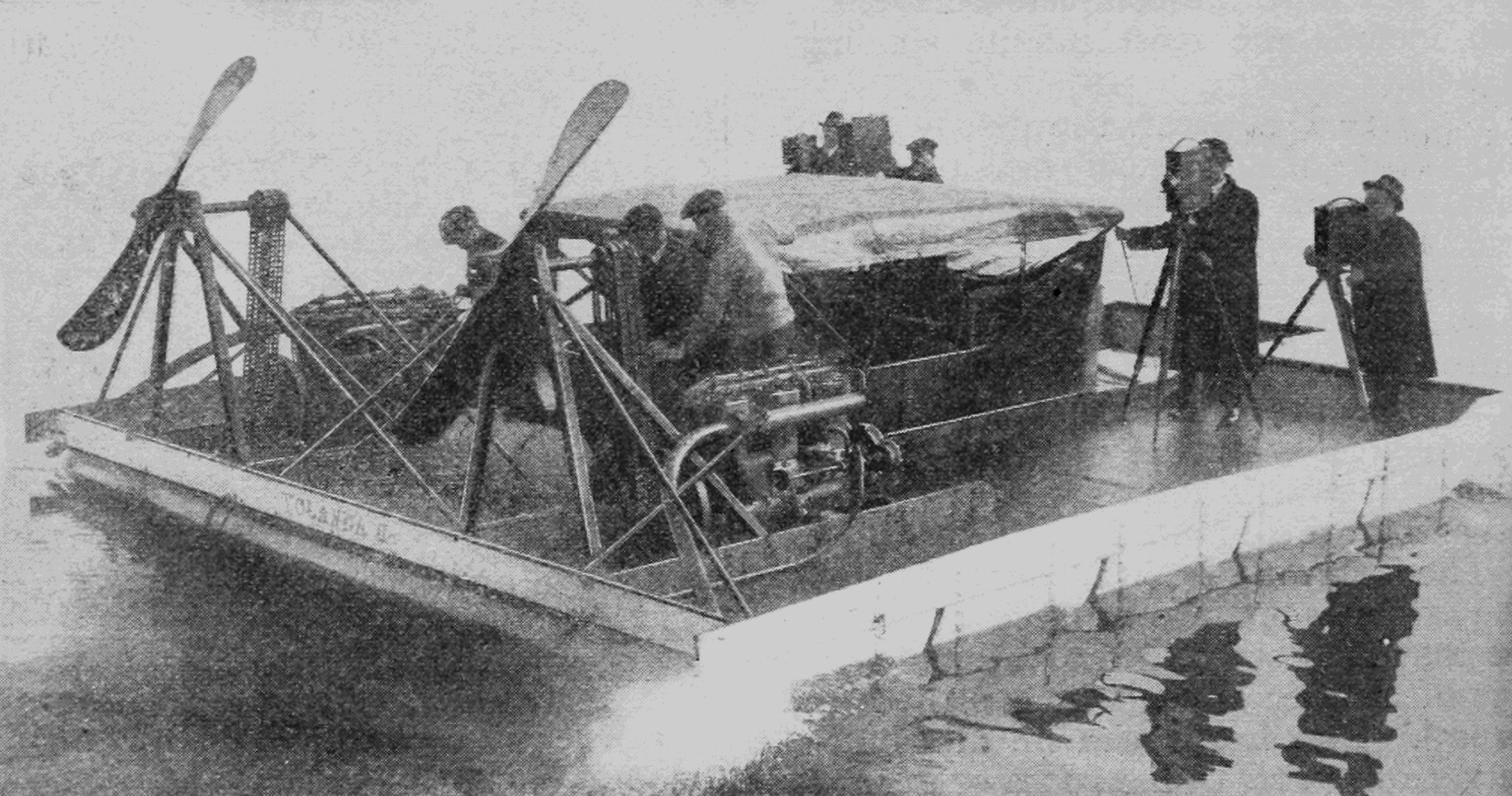 Early version of an airboat